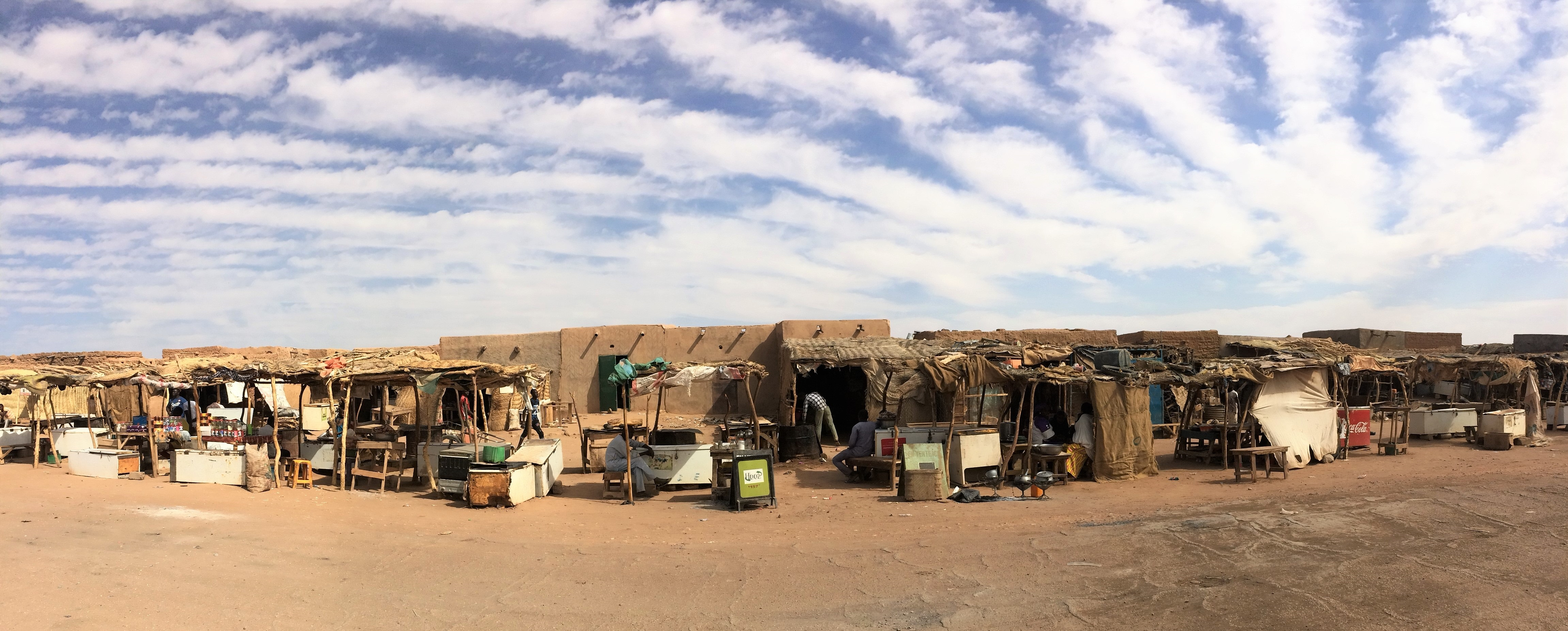 Market stalls in "RTA", a village on the Tahoua - Arlit road in northern Niger (Agadez Region, Arlit Department, Commune of Dannet). The village serves mostly as a truck stop where refreshments are sold to travellers.